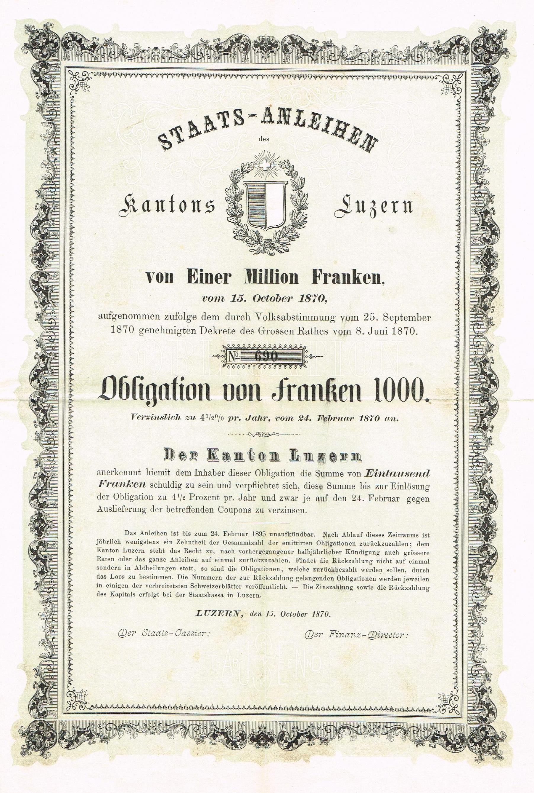 Bond of the canton Luzern, issued 15. October 1870